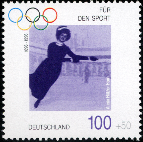 Stamp from Deutsche Post AG from 1996, Annie Hübler-Horn